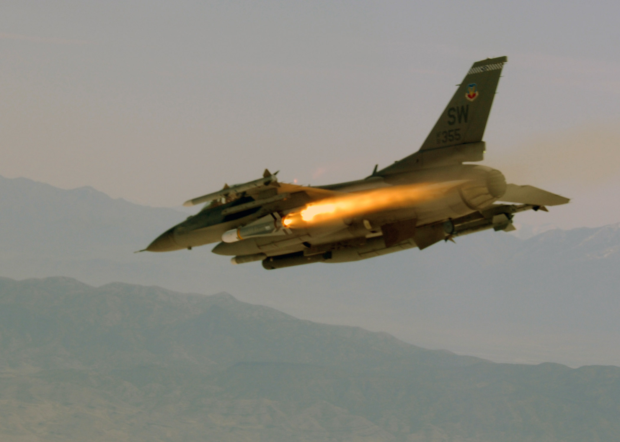 An F-16 Fighting Falcon from the 55th Fighter Squadron at Shaw Air Force Base, South Carolina, fires an AGM-65 Maverick at a ground target during Combat Hammer, a large-scale evaluation at Hill Air Force Base, Utah. The two-week exercise assesses operational effectiveness and suitability of weapons and weapons systems.